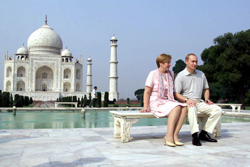 AGRA. Vladimir and Lyudmila Putin visiting the Taj Mahal.